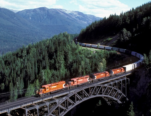 Description from original file: "The Stoney Creek Bridge is just within the East end of Glacier Park on the Connaught track between Rogers and Flat Creek on the Mountain Sub of the Revelstoke Division of the CPR. Stoney Creek Bridge is over 600' long and 325' above the creek.". Derivative work of Eastbound_over_SCB.jpg